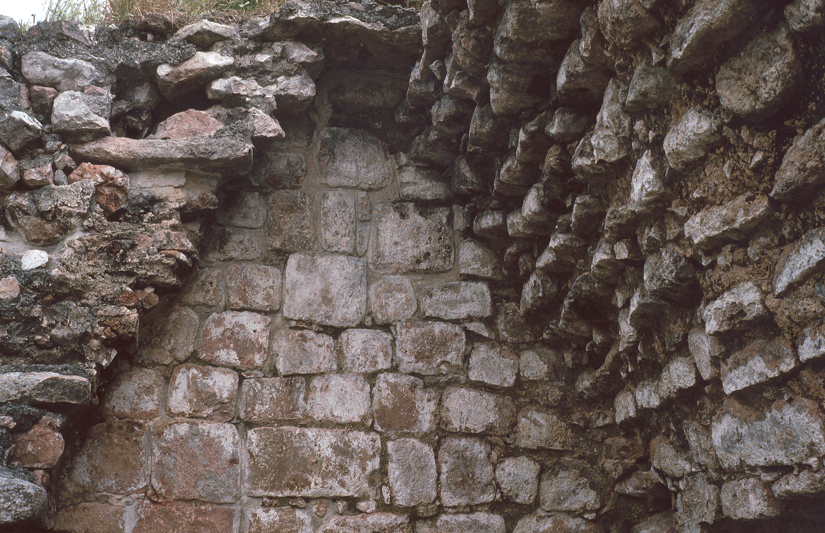 Oxkintoc, Yucatan, Mexico: Group Ah Canul, structures 5 and 6, stepped vault.